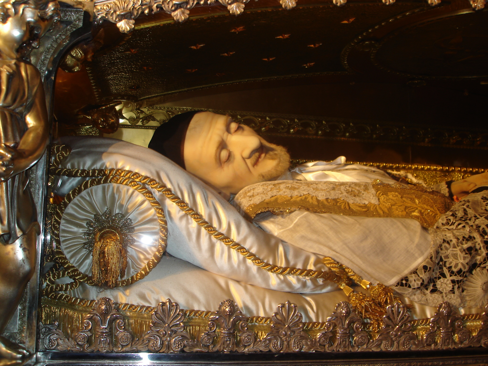 Embalmed body of St. Vincent de Paul, Paris